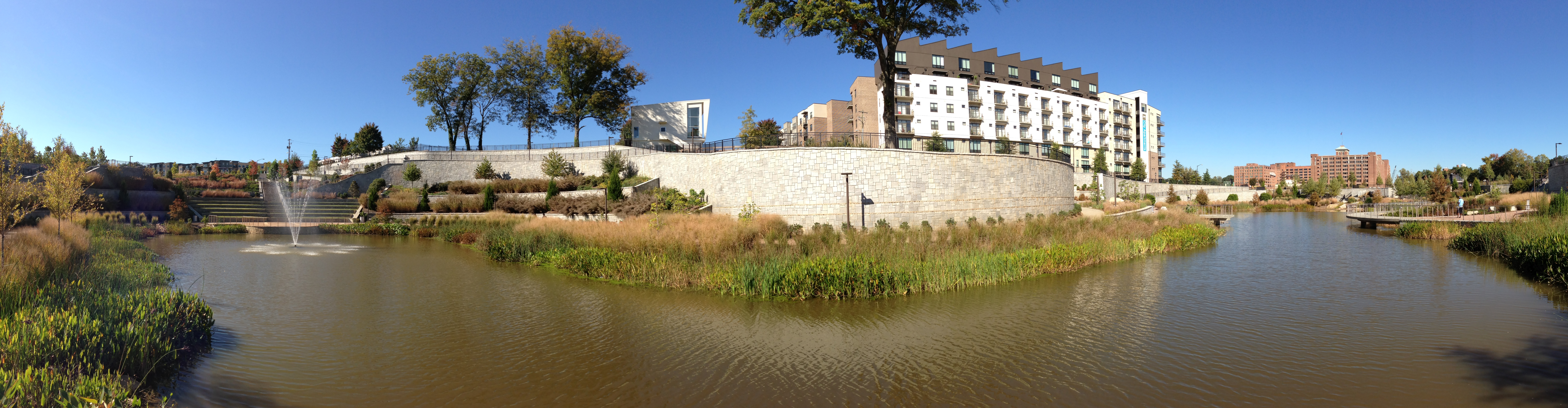 Historic Fourth Ward Park retention pond, Atlanta, Georgia, USA. Left side, facing south. Right side, facing north with view of Ponce City Market.